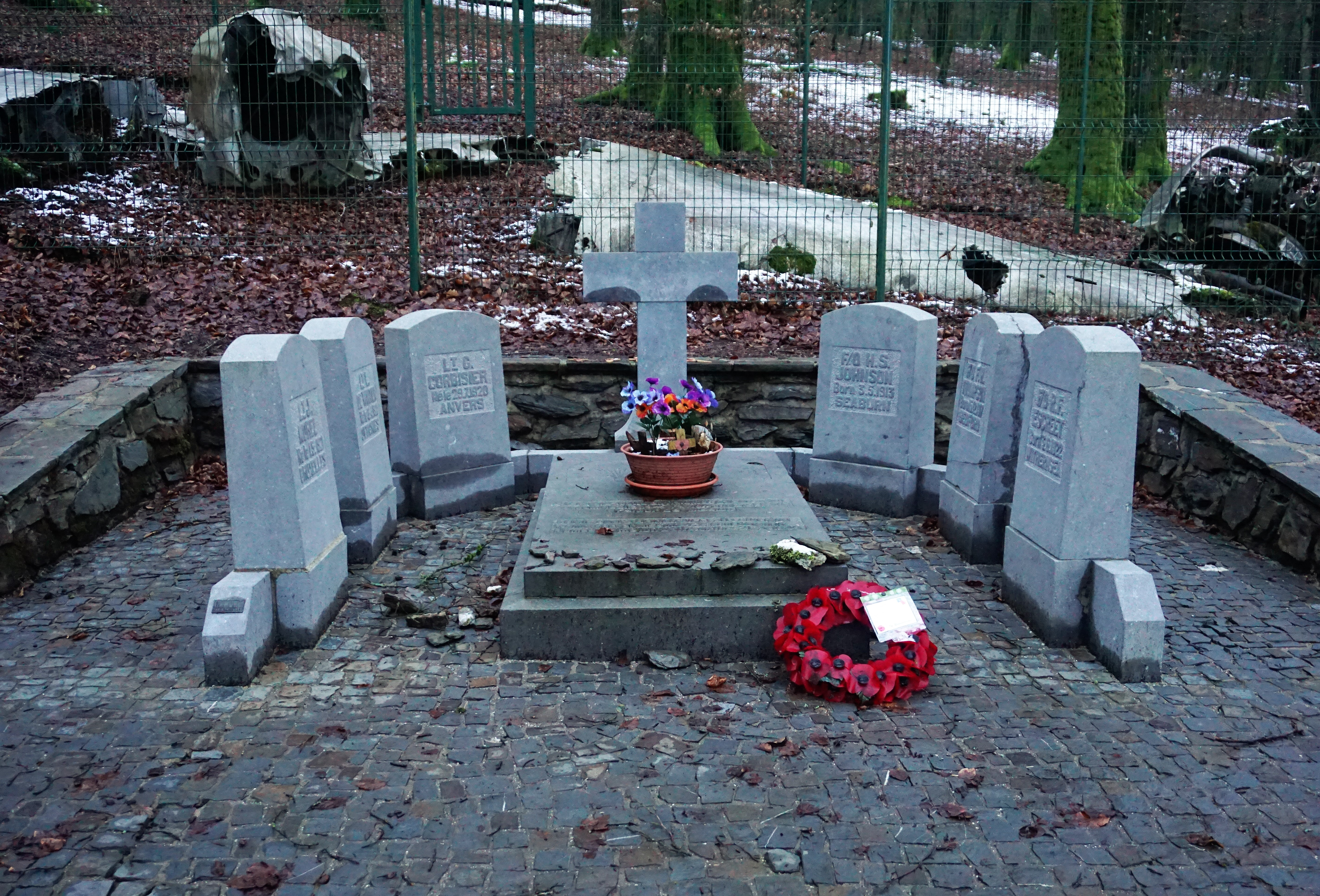 Maulusmühle, Belgian-British monument of S.R.A. Inscription on the monument: “At this spot a British aircraft returning from a secret mission was shot down in flames by the Luftwaffe on the 21/3/1945.”